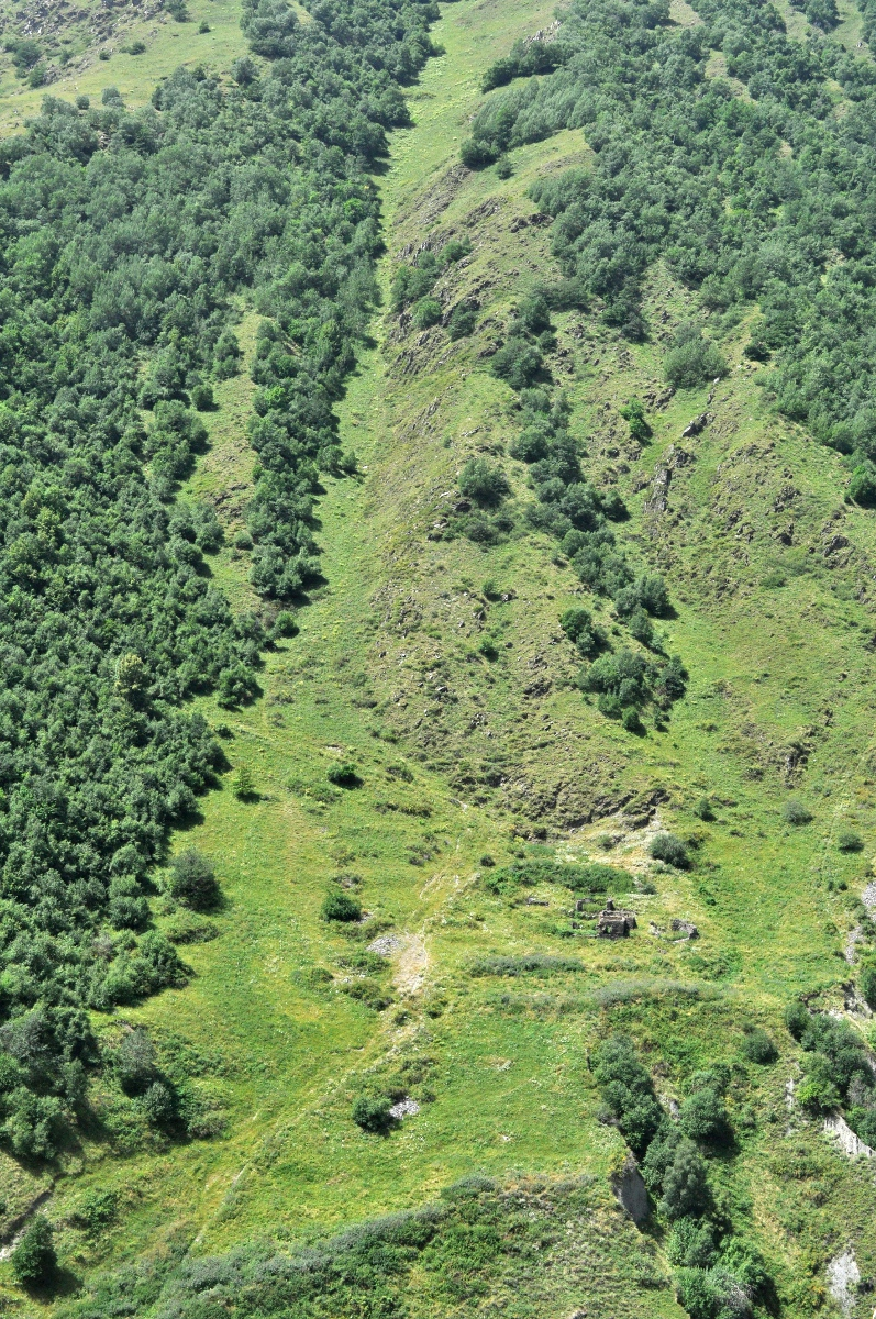 The ruins of an unknown settlement in the north-eastern Georgian province of Khevsureti in the Caucasus